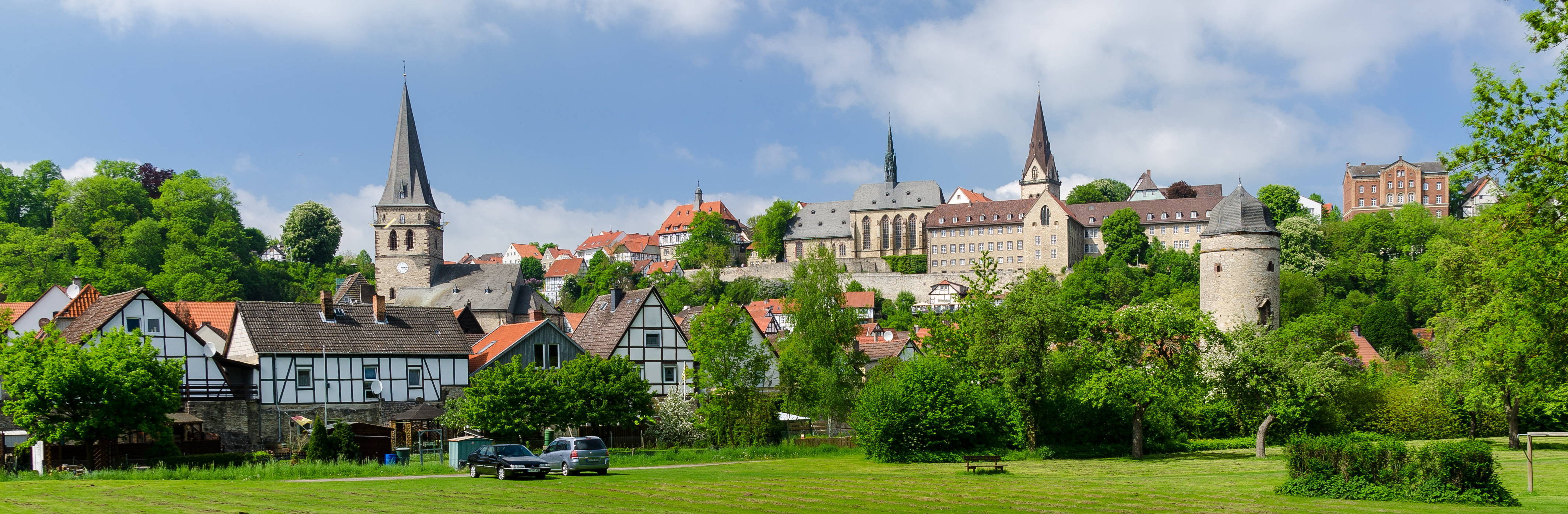 Panoramic view over Warburg with nearly all important sights